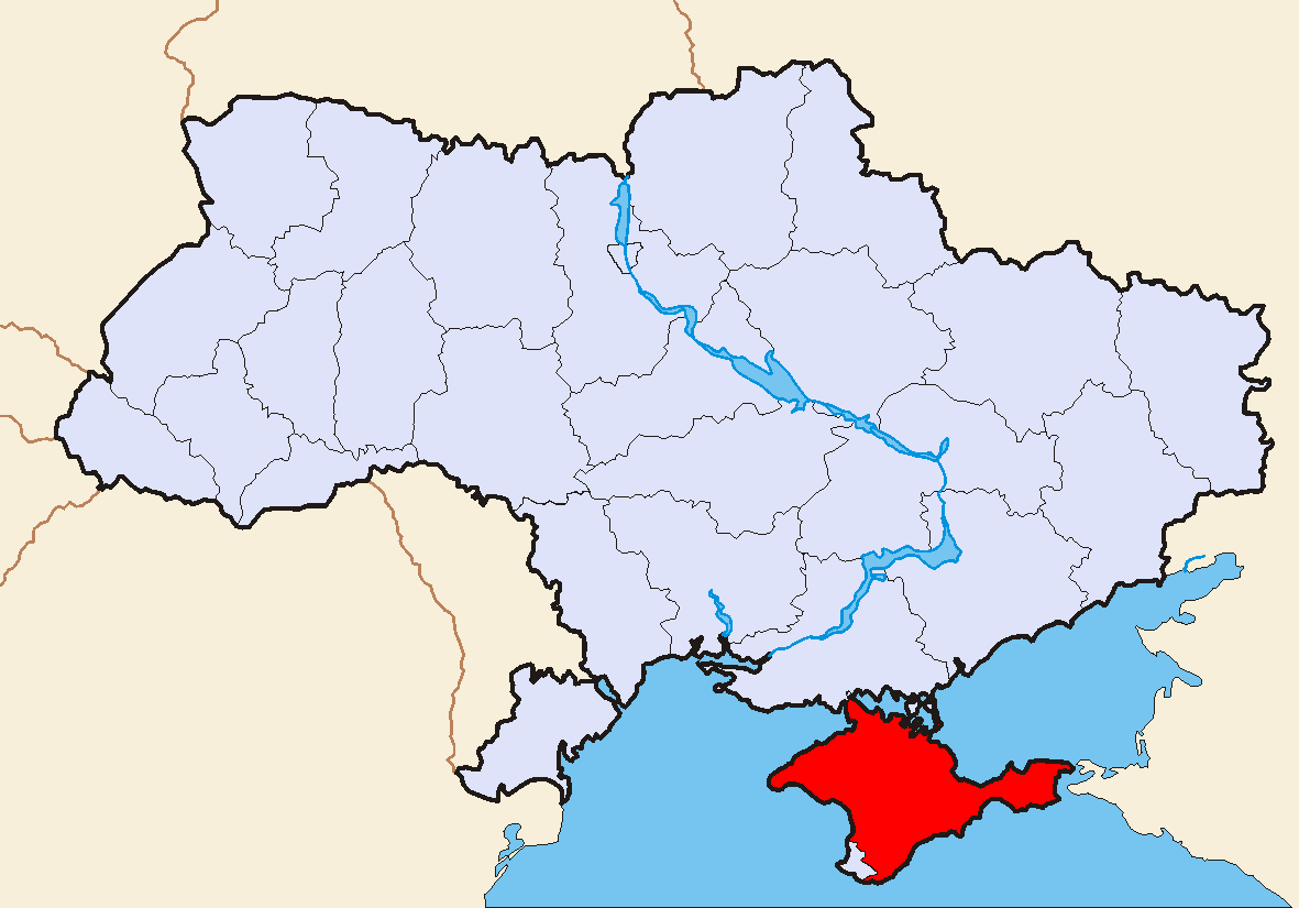 Alternative version of the map Image:Map of Ukraine political simple Oblast Krim.png by Sven Teschke. Sevastopol and Kiev are shown as national-level cities, because Sevastopol is not a part of the Autonomous Republic of Crimea. Jeroen 17:26, 18 July 2006 (UTC)